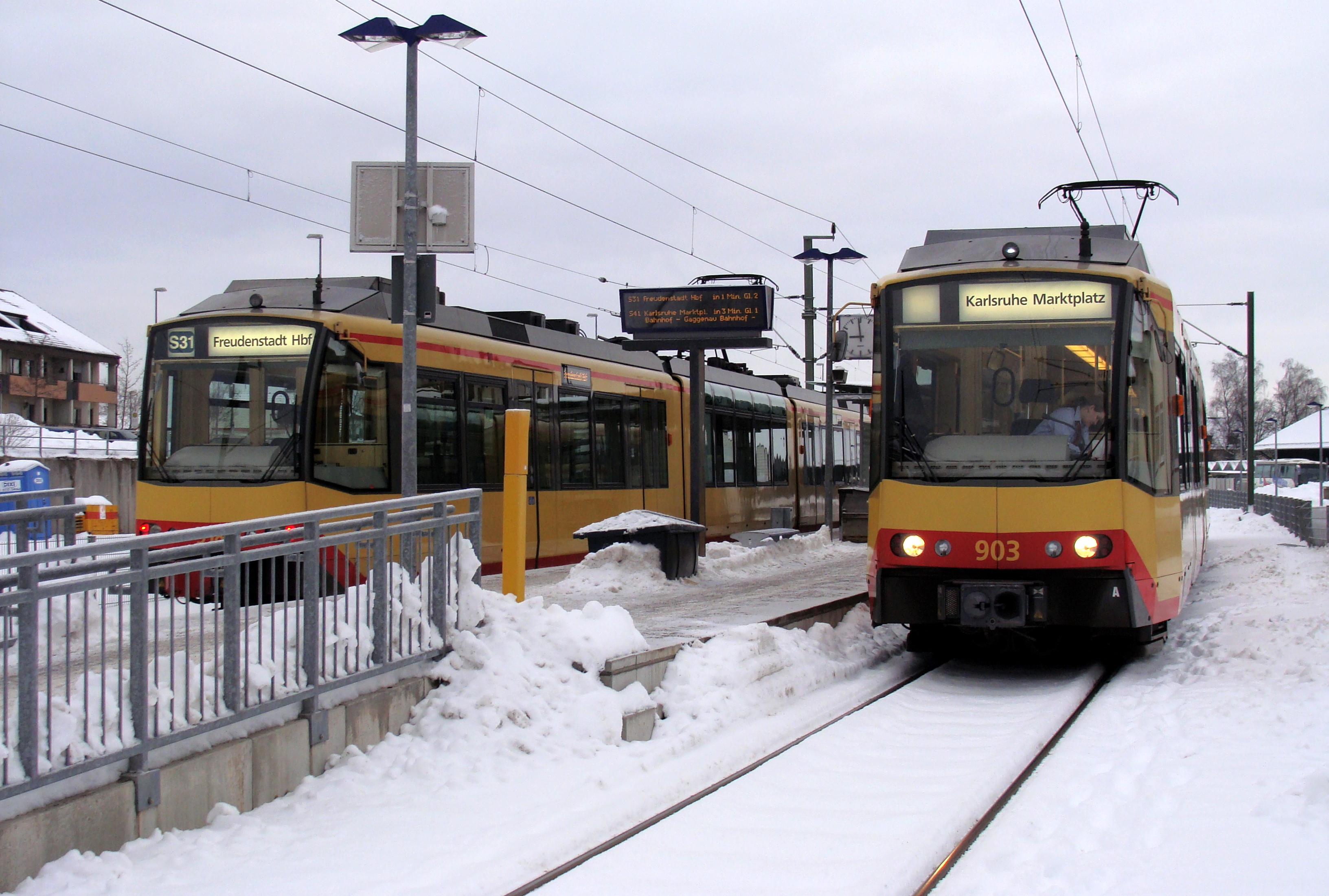 Tram train in Freudenstadt Stadtbahnhof